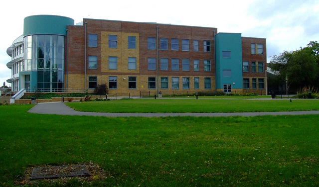 A front entry gate of Acton High School, Middlesex's new building as of 2008.